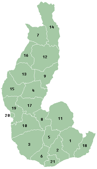 List of districts (fivondronana) in Tulear province (Toliara)